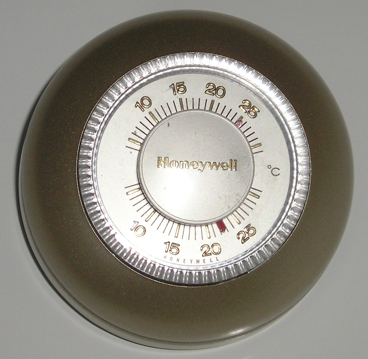 Honeywell thermostat for building